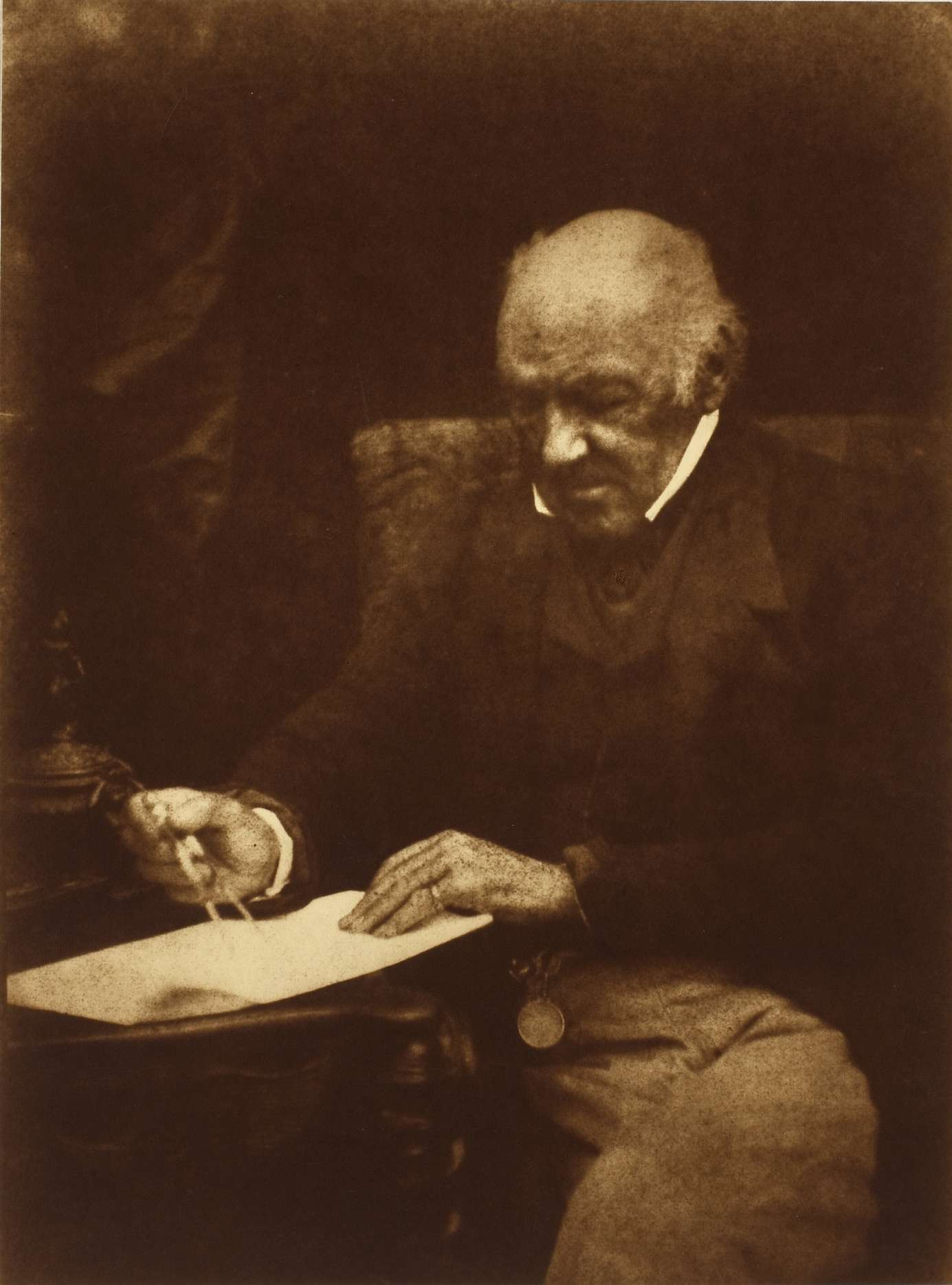 Carbon print of Robert Reid (8th November 1774 - 20th March 1856)